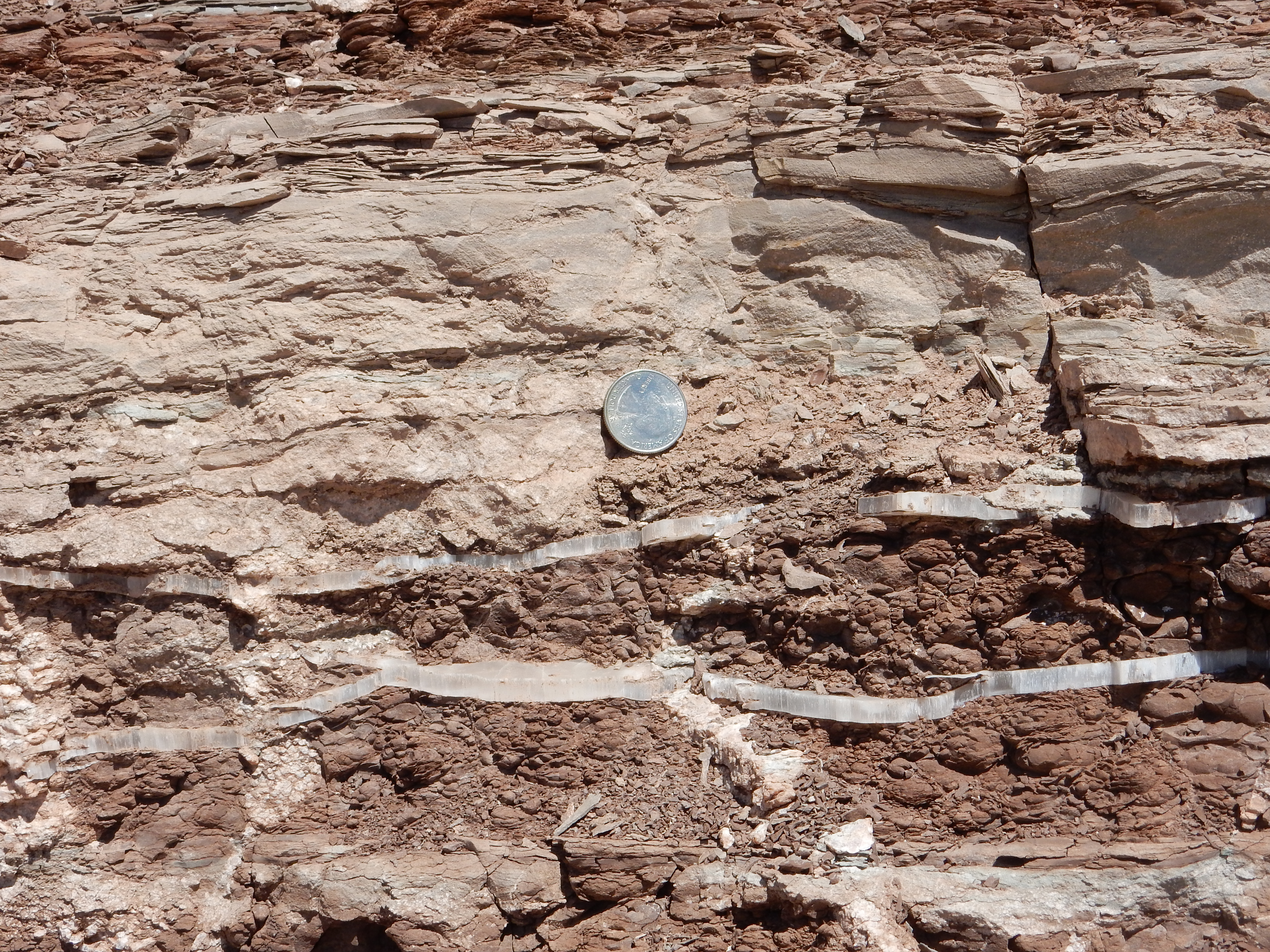 This images shows an outcrop of the Summerville Formation in a road cut west of Hanksville, Utah, USA. U.S. quarter dollar coin for scale. The Summerville Formation is a Jurassic formation thought to be laid down in a coastal tidal flat environment.